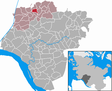 This map shows the area of the municipality Siezbüttel in the Kreis (district) Steinburg, Schleswig-Holstein, Germany.